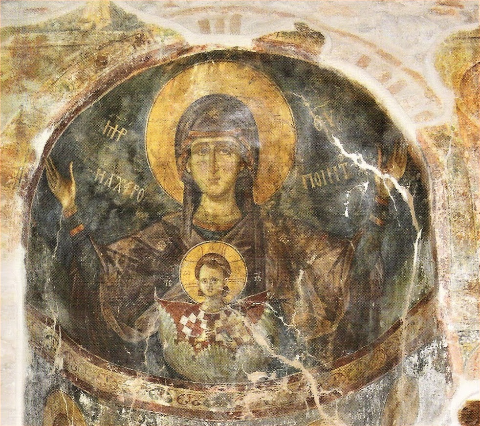 Saint Alypius Church Fresco Platytera Fresco